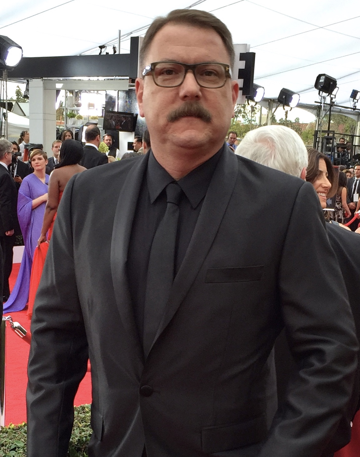 Eric Womack, attending the Screen Actors Guild Awards